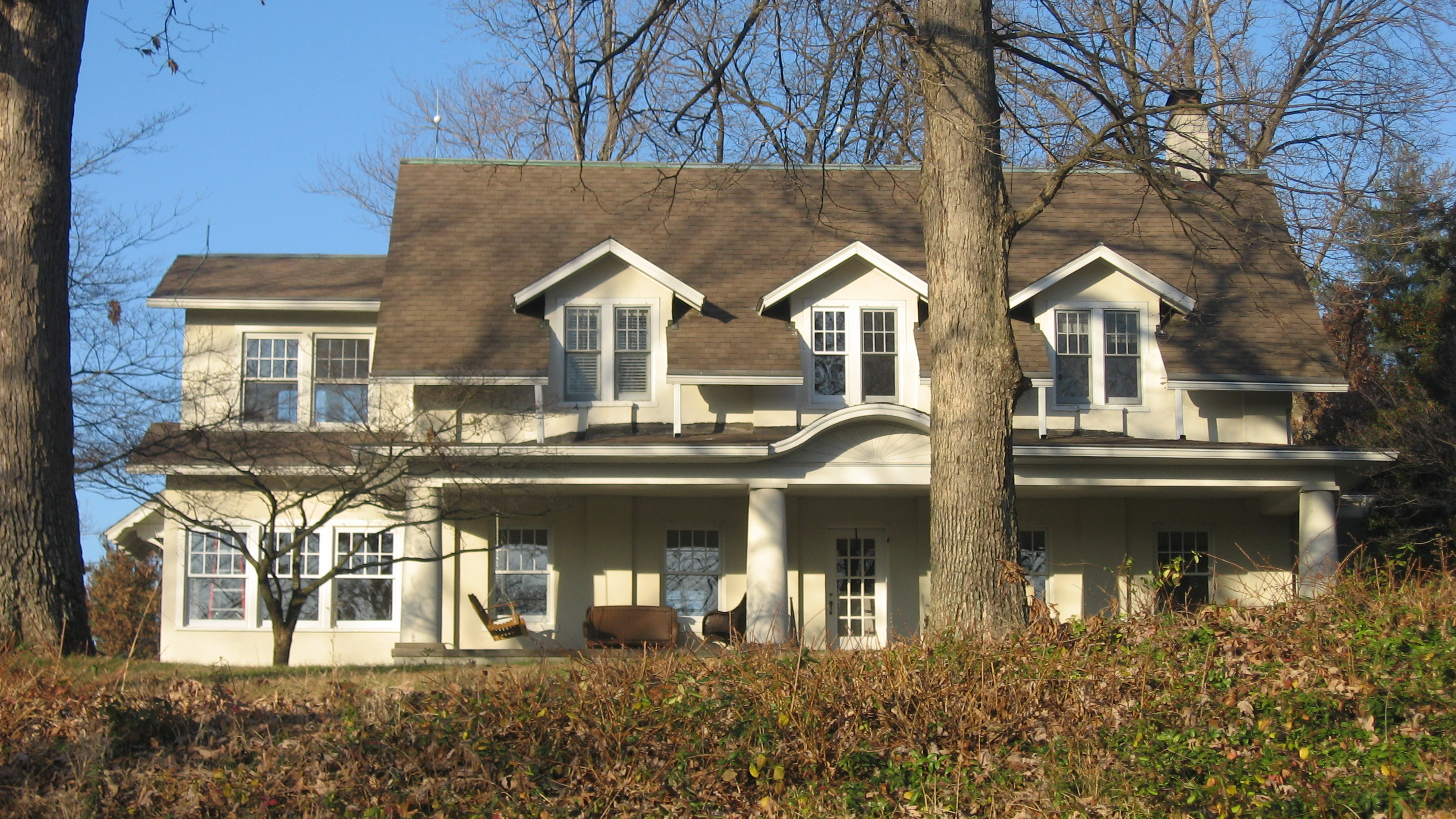 Front of the Charles Sweeton House, located at 8700 Old State Road in Evansville, Indiana, United States. Built in 1886 as a school and converted into a house in 1926, it is listed on the National Register of Historic Places.